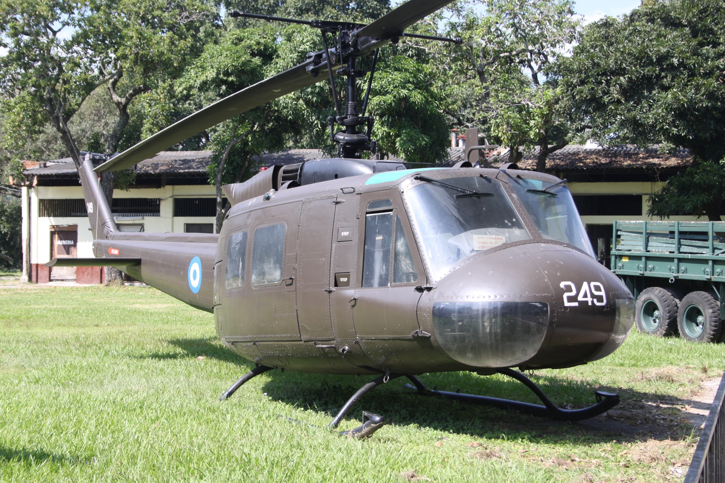 At Museo De Histiria Militar San Salvador